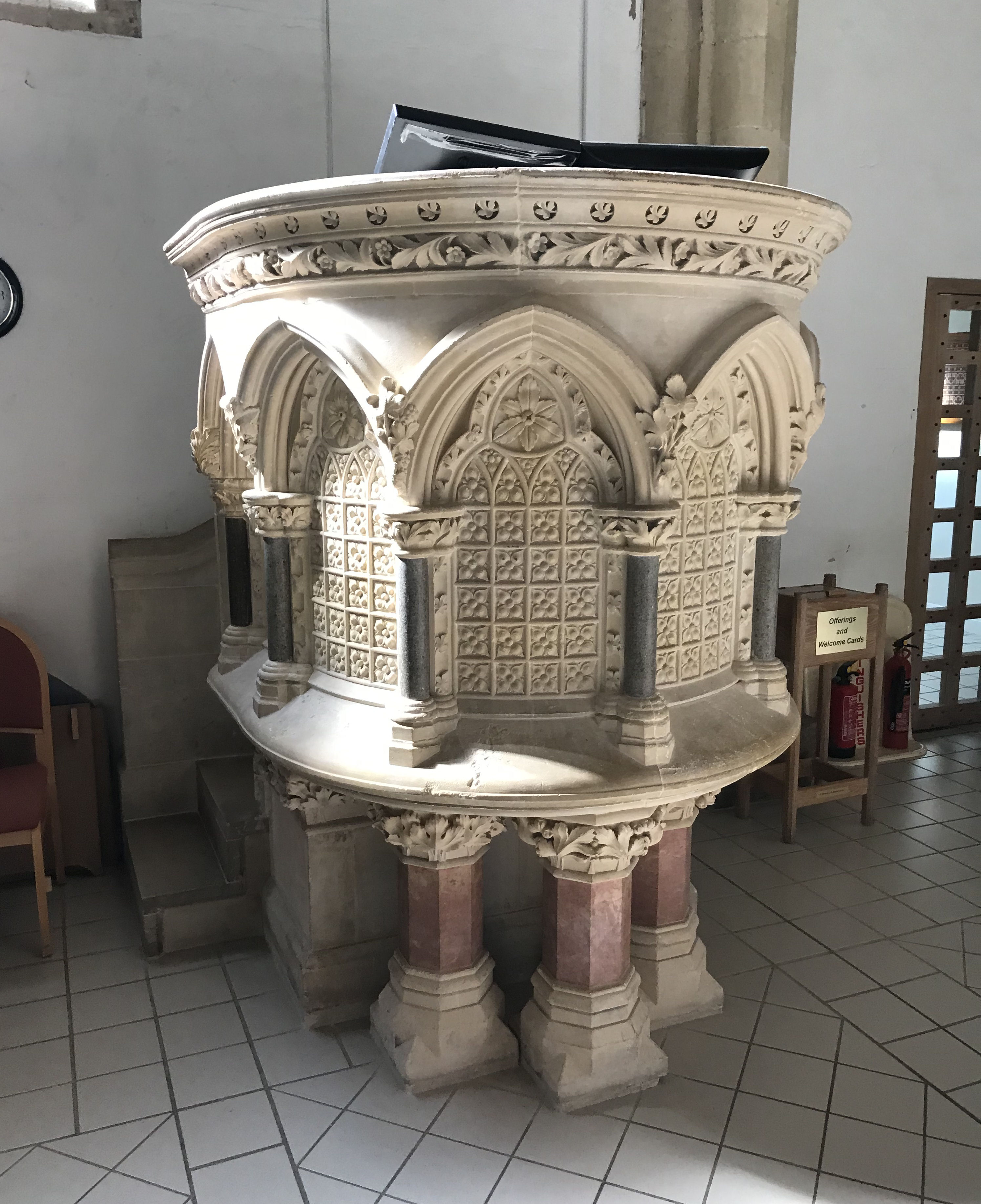 The Victorian era pulpit in Greyfriars Church in Reading in Berkshire. No longer in use, today it houses the sound system used in worship